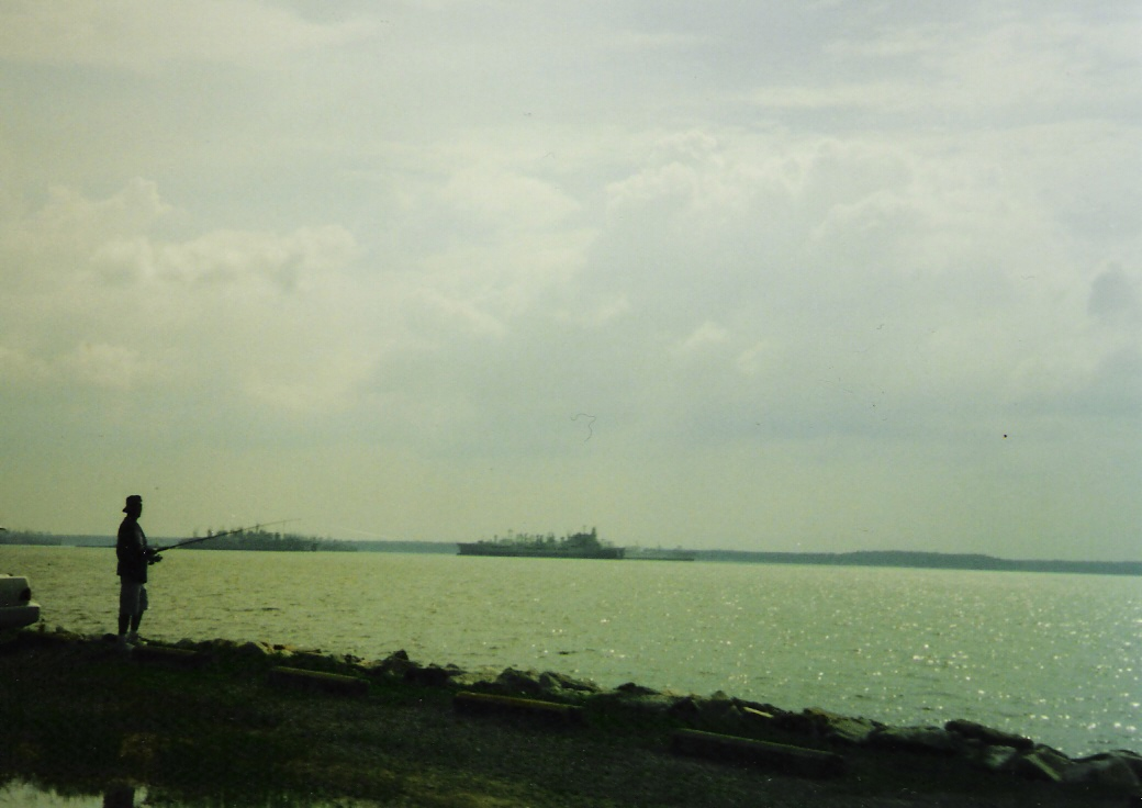 The James River Ghost Fleet near Fort Eustis, Virgina, United States Army. During Operation TRANSLOTS, 2001.